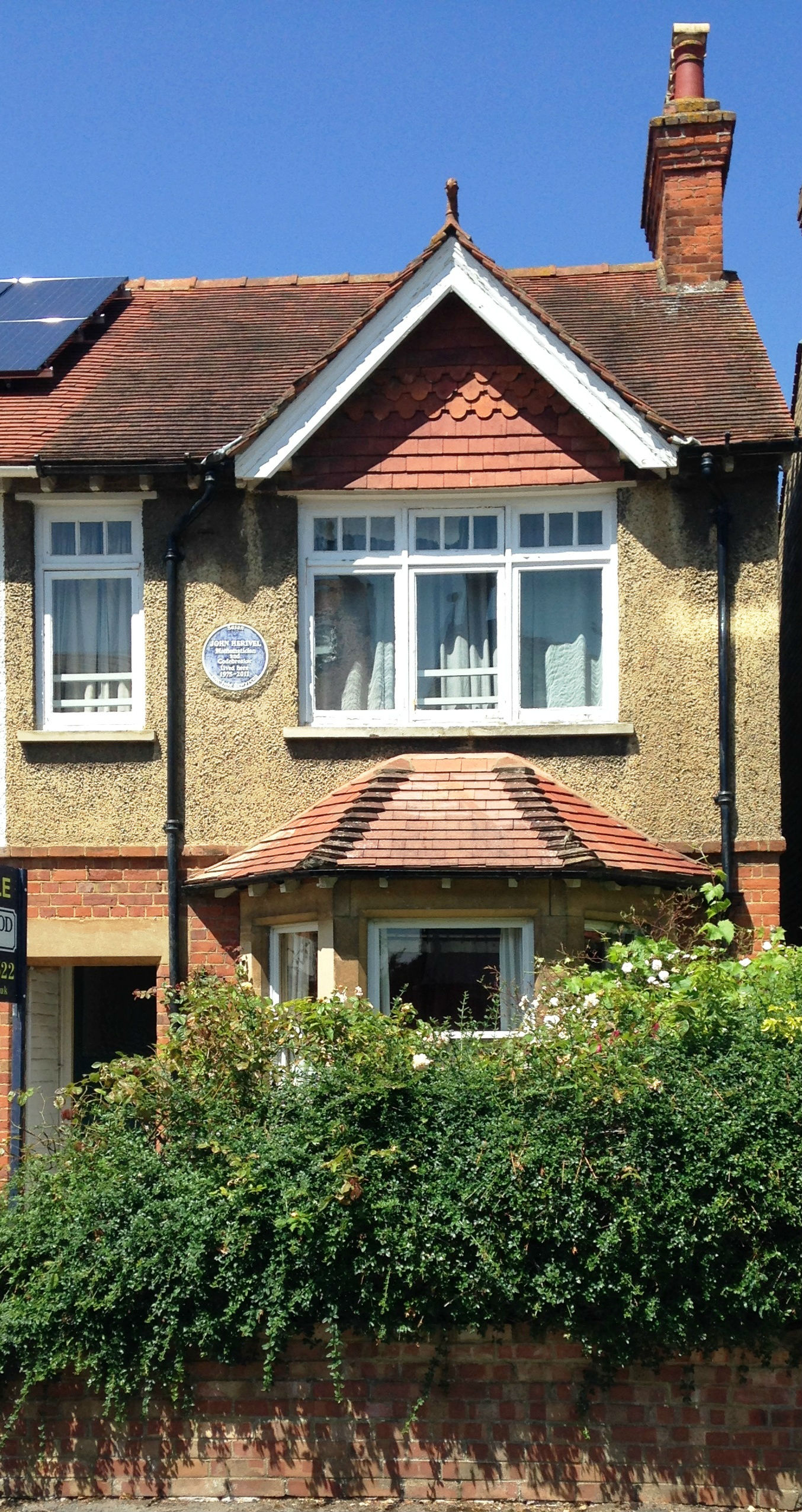 75 Lonsdale Road, Oxford, England. A blue plaque was unveiled on 10 May 2014: "John Herivel, mathematician and codebreaker, lived here 1975-2011"